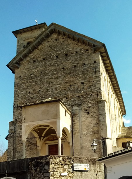 Parish church of Quarna Sotto (VB, Italy)